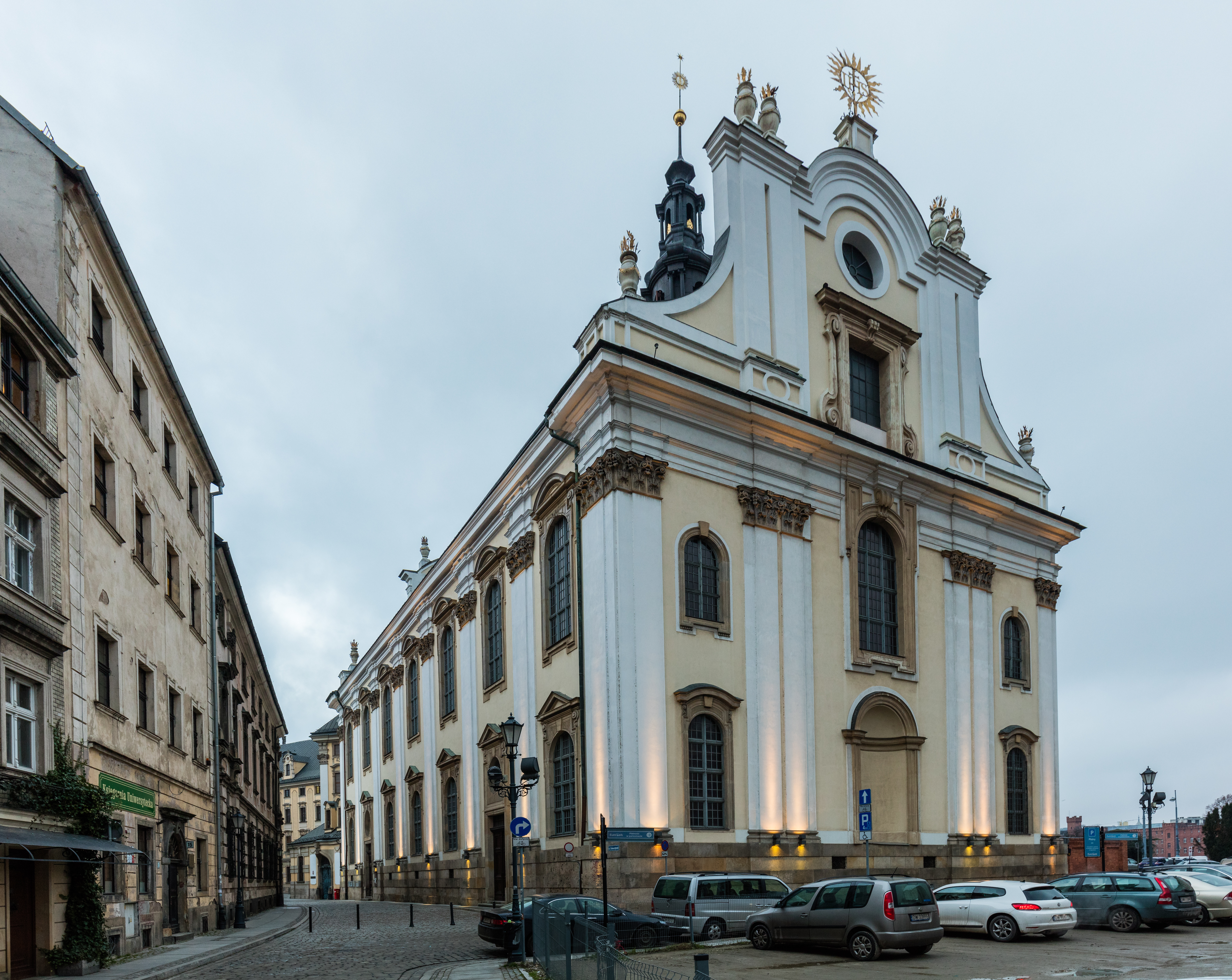 Church of the Blessed Name of Jesus, Wrocław, Poland